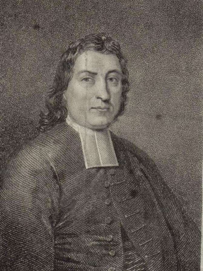 A portrait from the Welsh Portrait Collection at the National Library of Wales. Depicted person: Joseph Hussey – English theologian